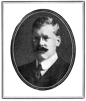 Depicted person: Bertram Fletcher Robinson – Author, Journalist and Sportsman